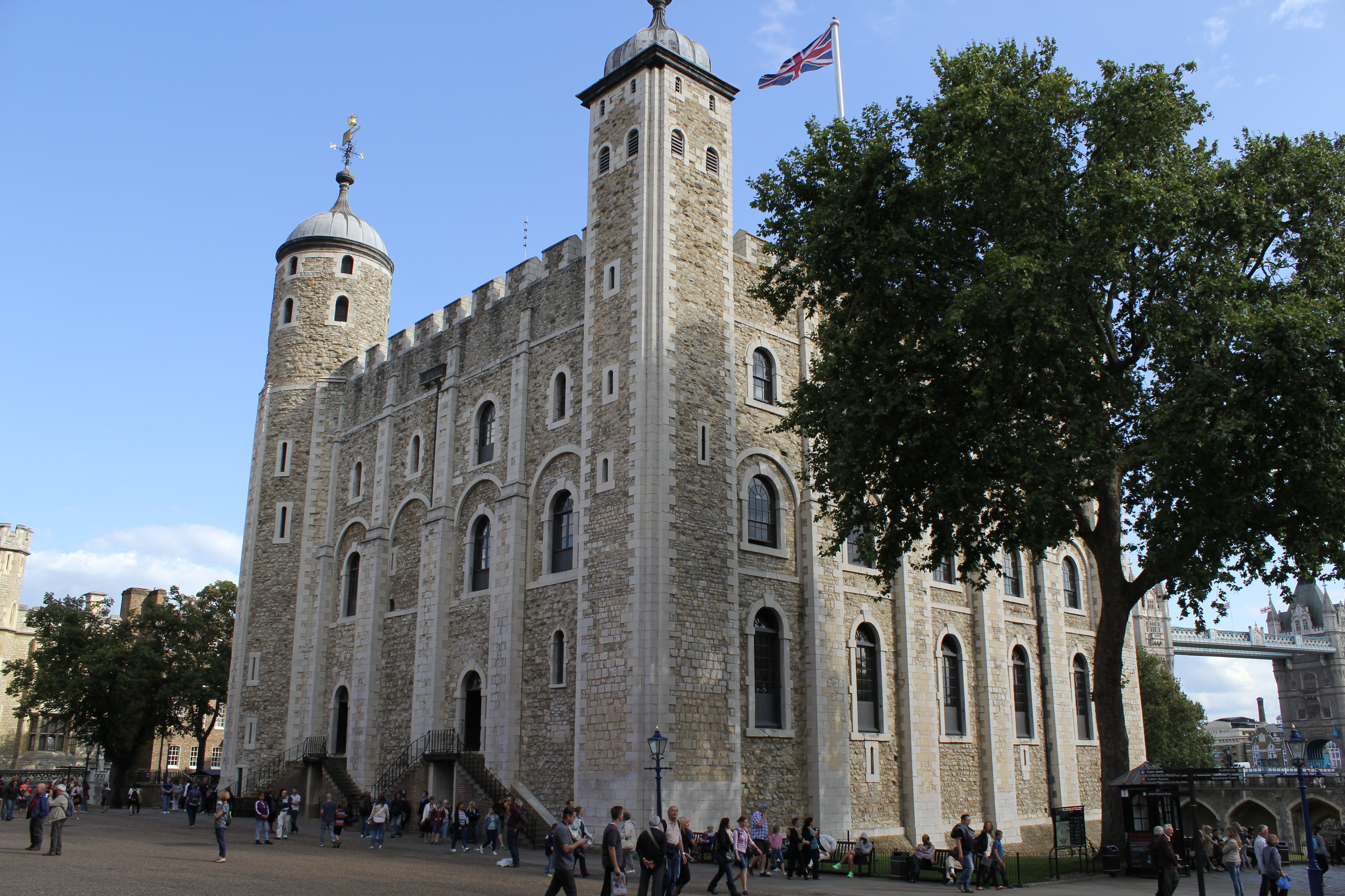 Tower of London Wikidata has entry Q17645576 with data related to this monument.